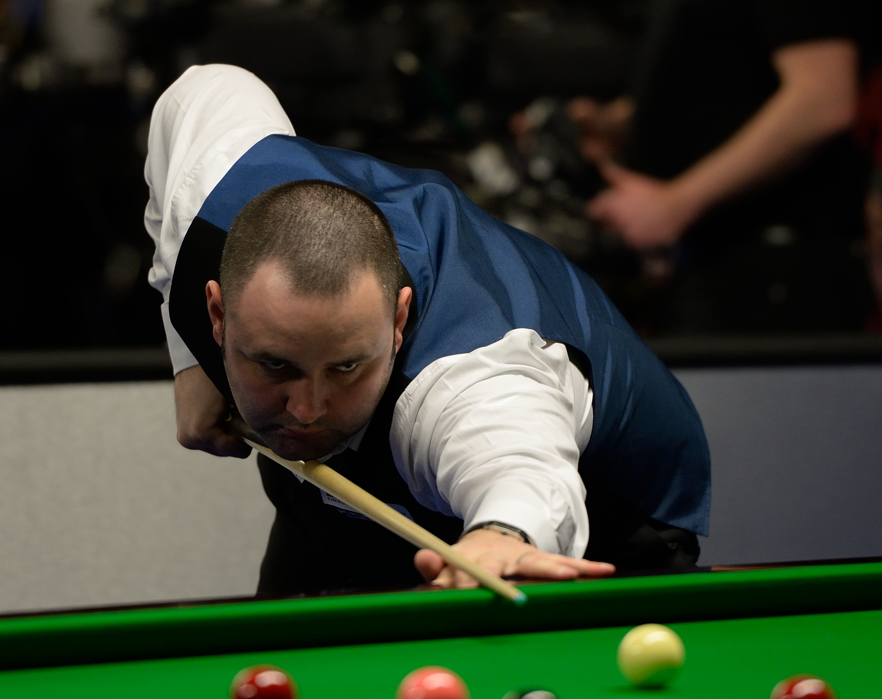 Picture taken in Berlin during the Snooker German Masters in 2015. Stephen Maguire.